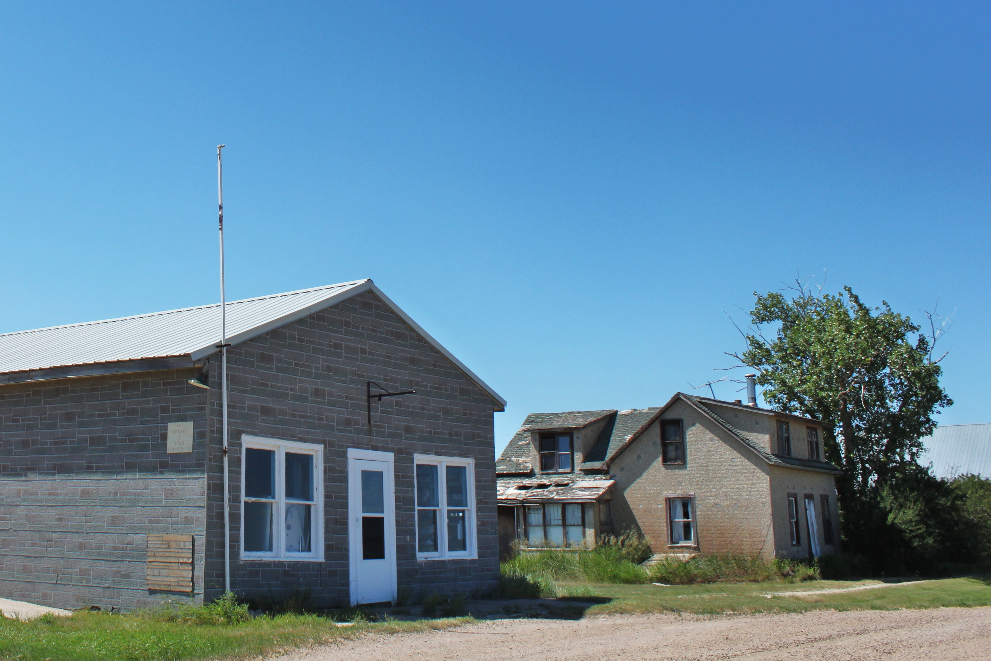 Main Street Claydon 2010